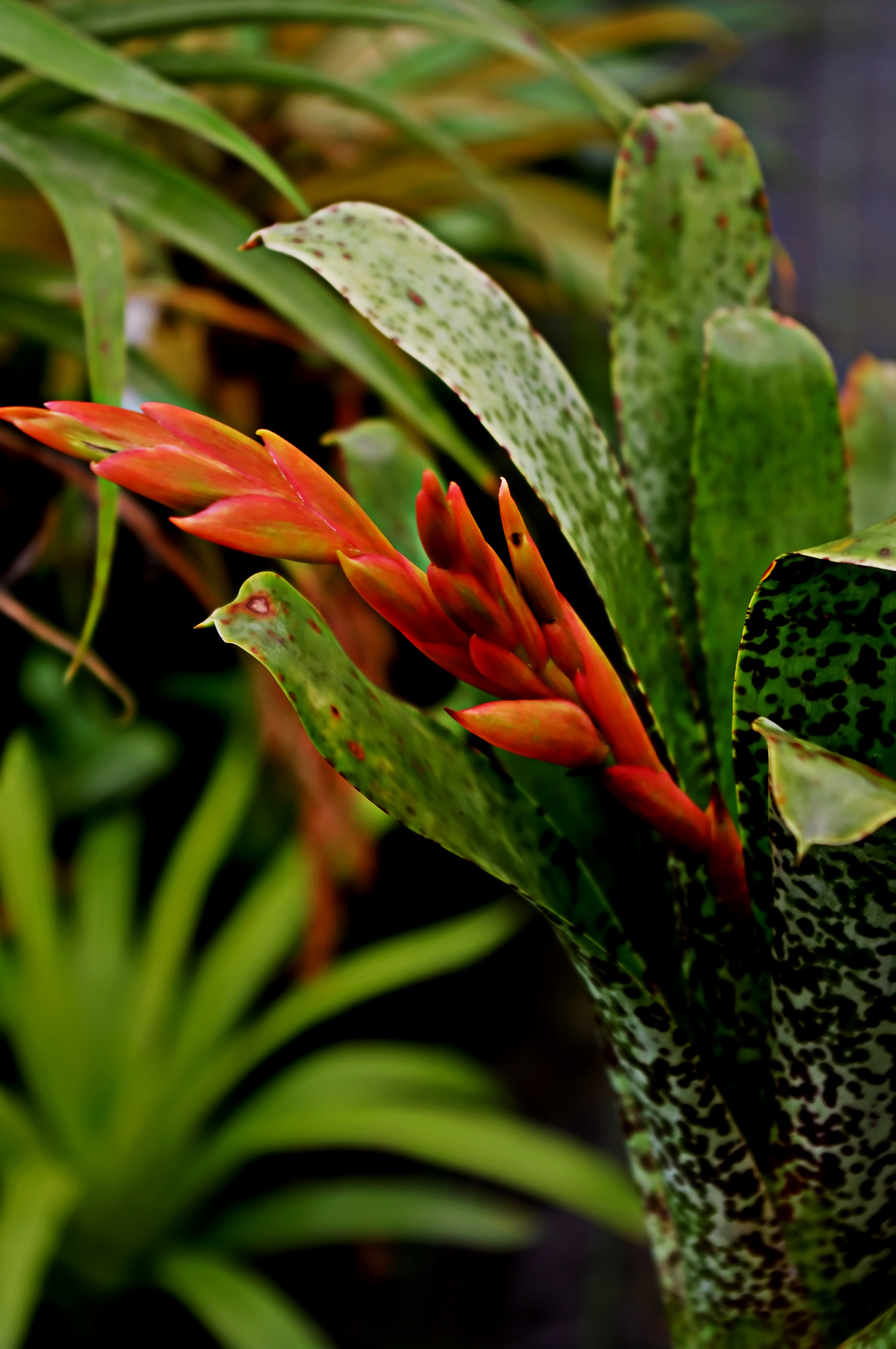 Visited with Peter Tristram from Forest Drive Nursery again today and took some shots of the nursery and gardens. Forest Drive Nursery Forest Drive Nursery specialises in bromeliads for the discerning collector. We are located at scenic Repton, 20km south of Coffs Harbour and half way between Sydney and Brisbane. The greenhouses and gardens display an extensive range of species, cultivars and hybrids largely from imported stock.